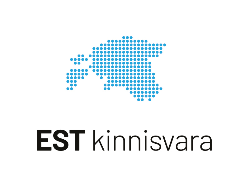 EST Kinnisvara uuendas logo